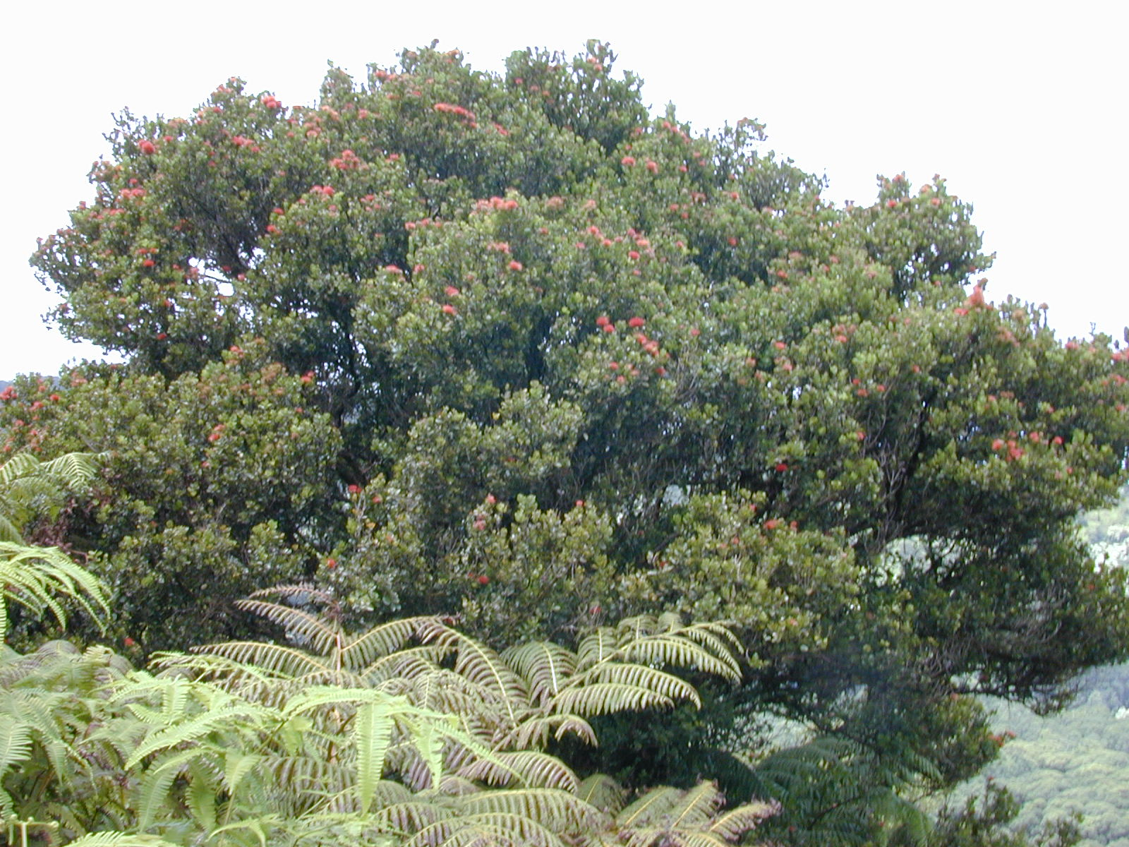 Metrosideros polymorpha (habit in bloom). Location: Maui, Wailua iki